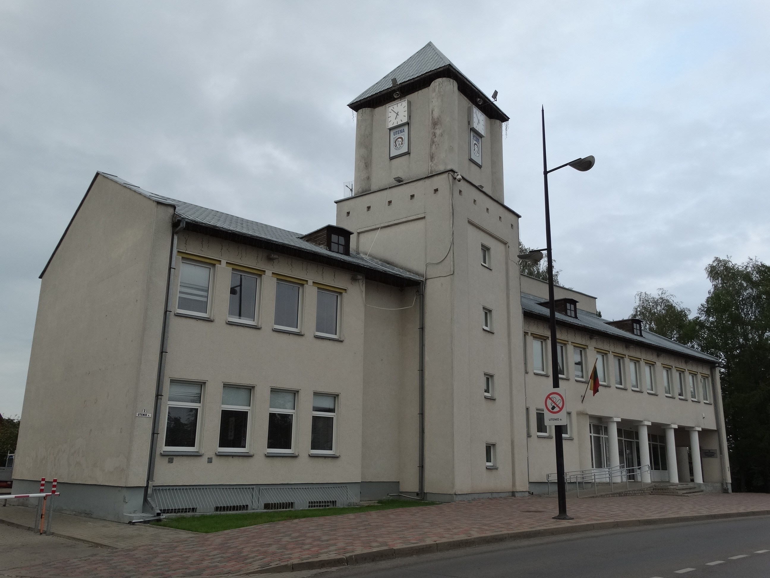 College, Utena, Lithuania